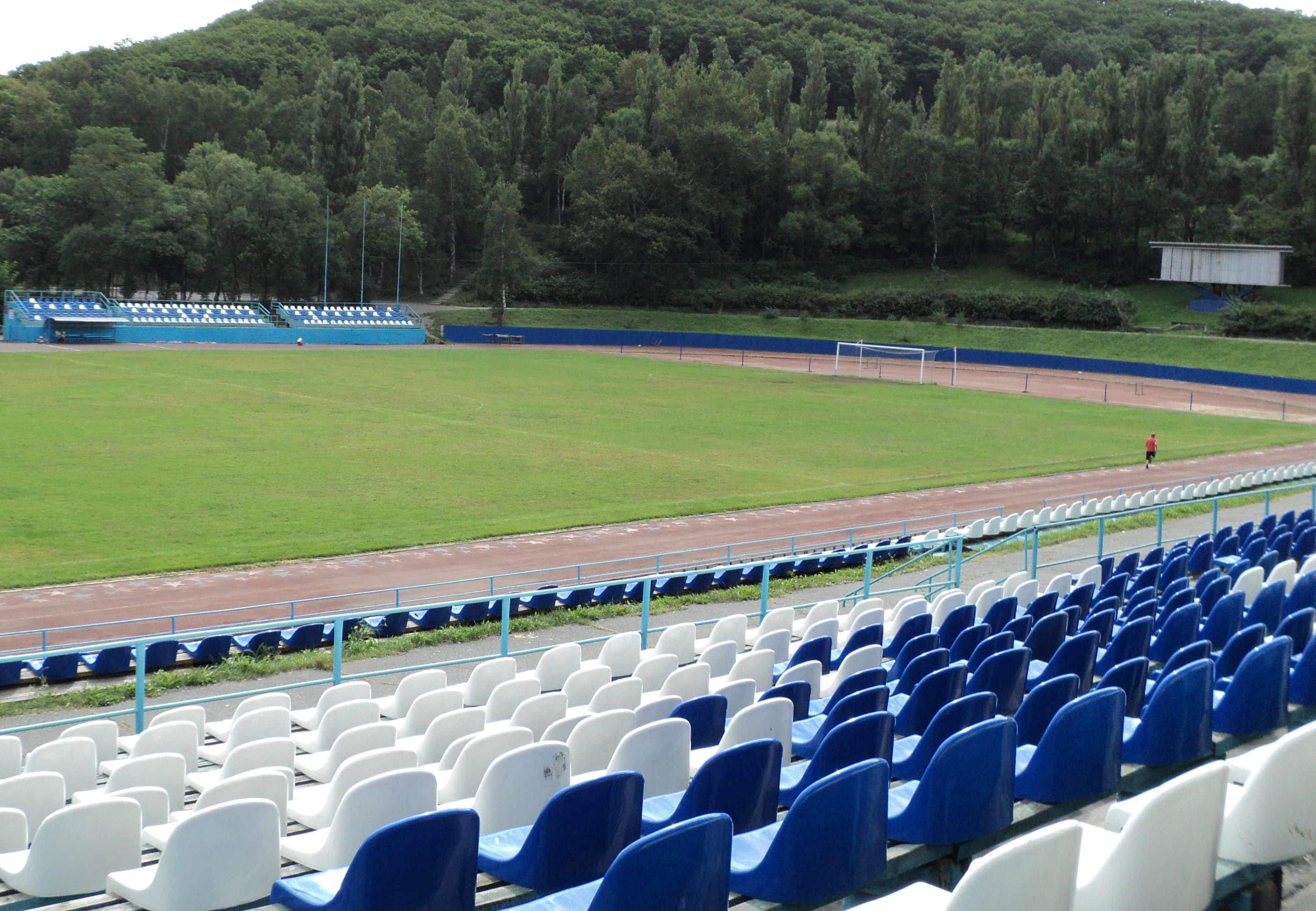 Vodnik Stadium, Nakhodka